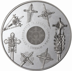 50 litas coin issued for participation in the Silver Coin programme “Europe. European Cultural Heritage” Silver Ag 925 Quality proof Diameter 38.61 mm Weight 28.28 g The edge of the coin: LIETUVOS BANKAS Designed by Rytas Jonas Belevicius Mintage 10,000 pcs Issue 2008 The coin was minted at the UAB Lithuanian Mint.